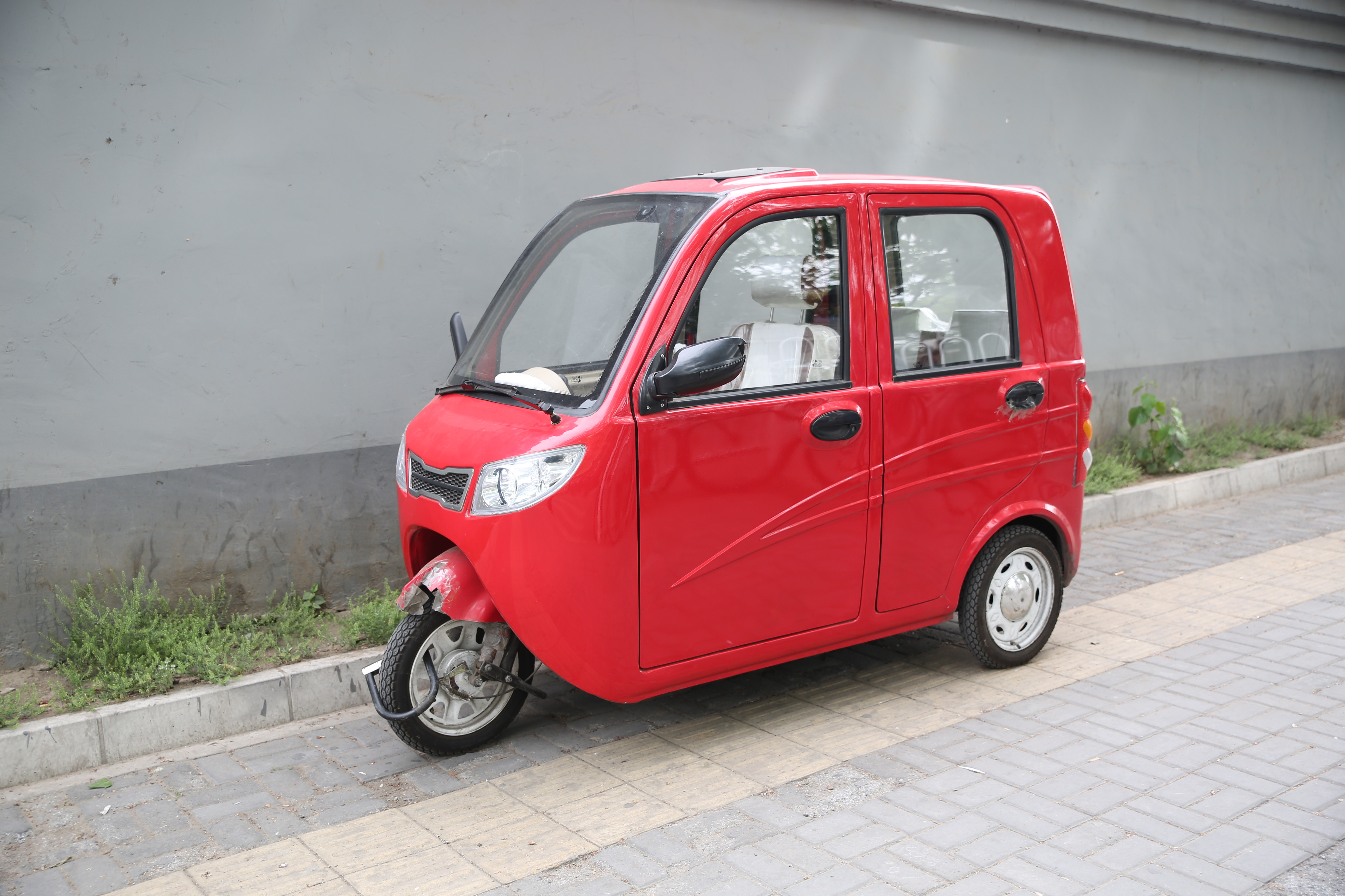 Carlike motor-rickshaw